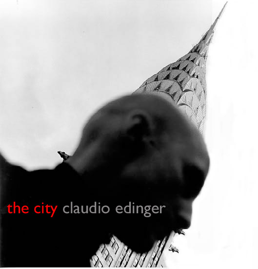 Livro The City